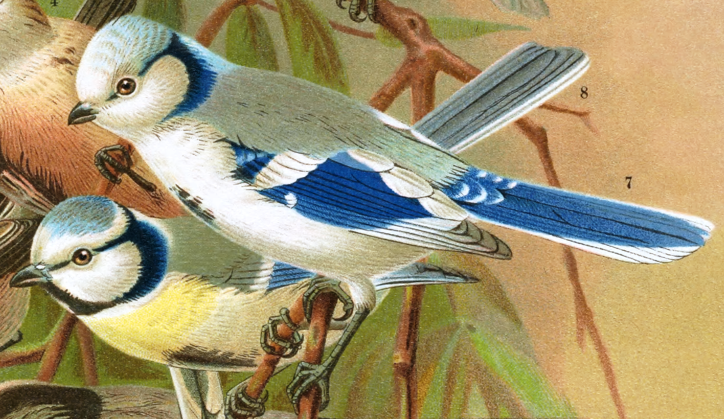 Parus cyanus. Naumann